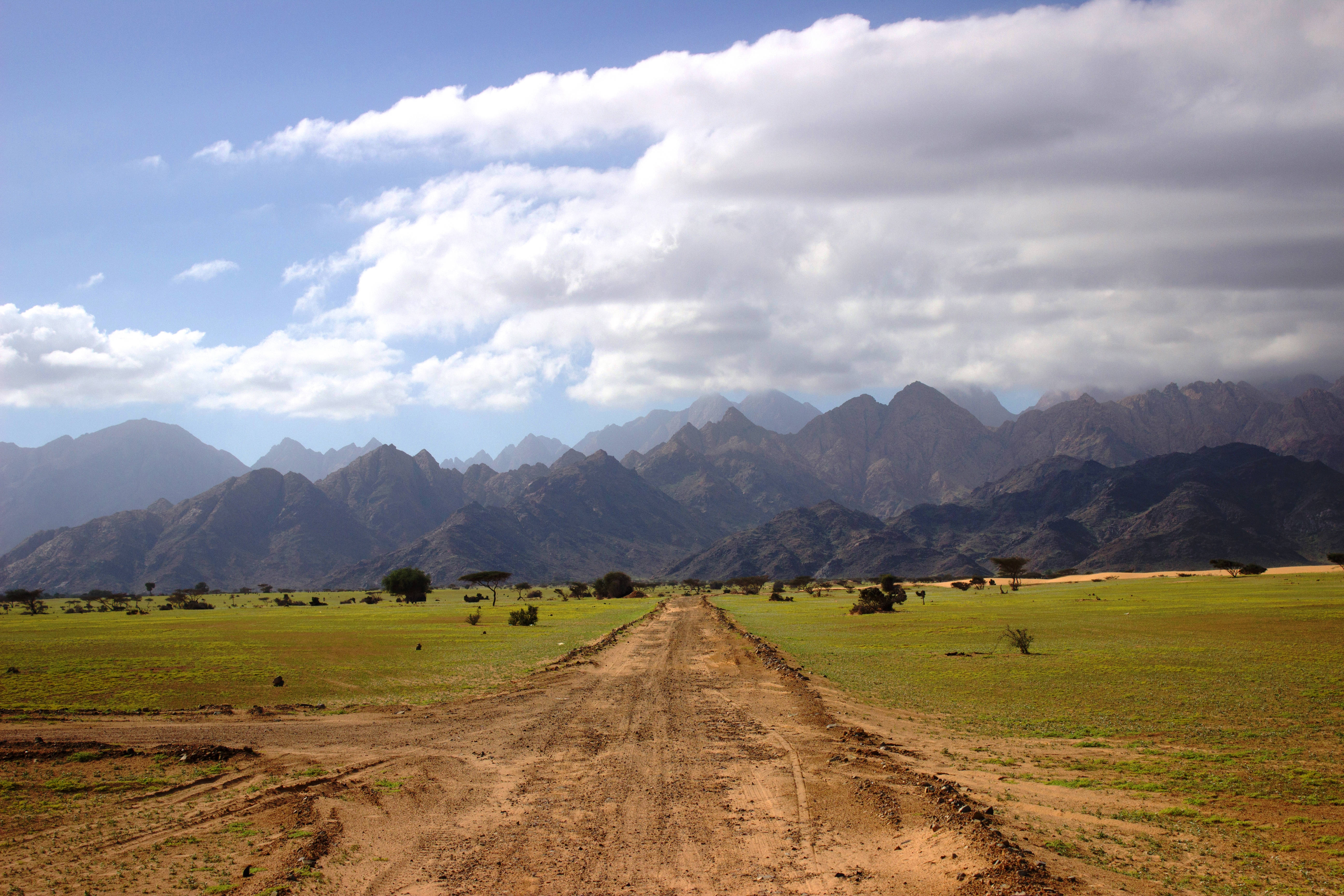 Gabal Elba Protectorate Area.